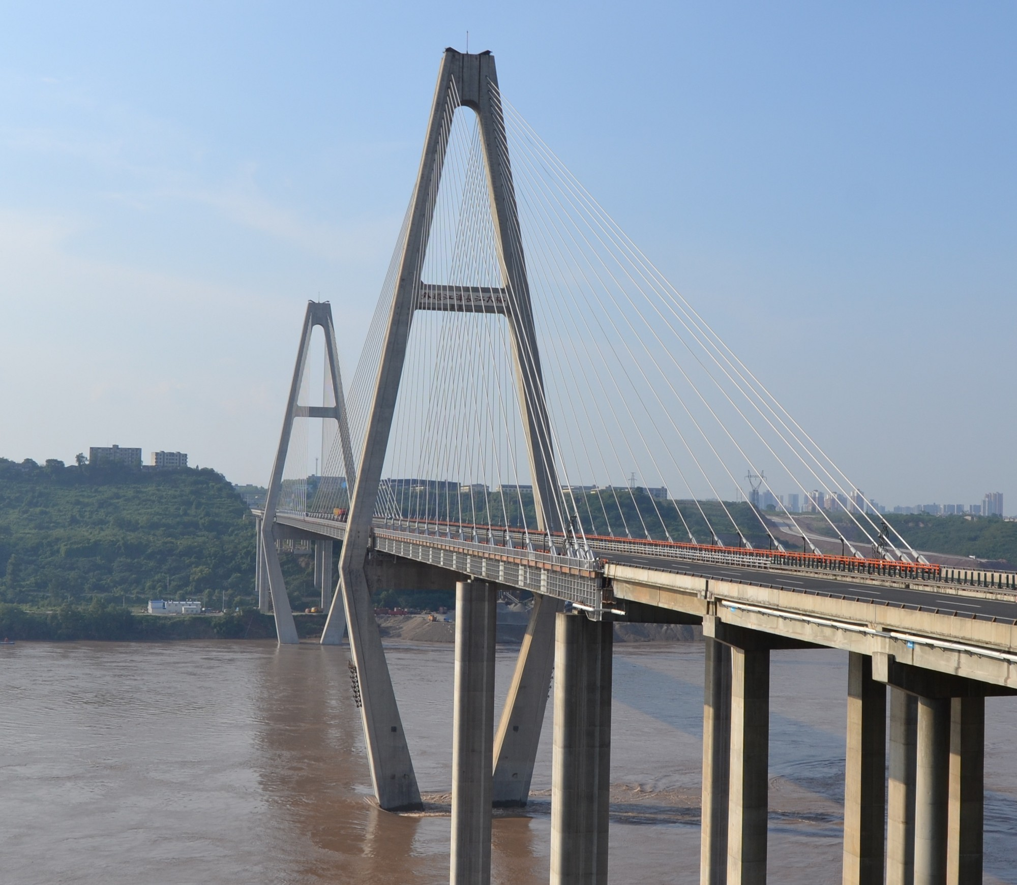 Guanyinyan Yangtze River Bridge, Chongqing Municipality, China